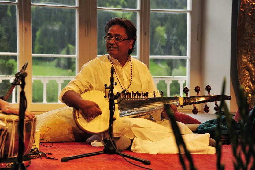 Pandit Vikash Maharaj during Concert in Germany